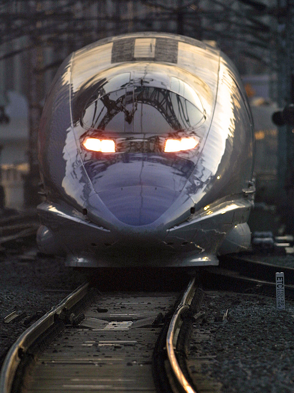 JR West 500 near Tokyo Station.